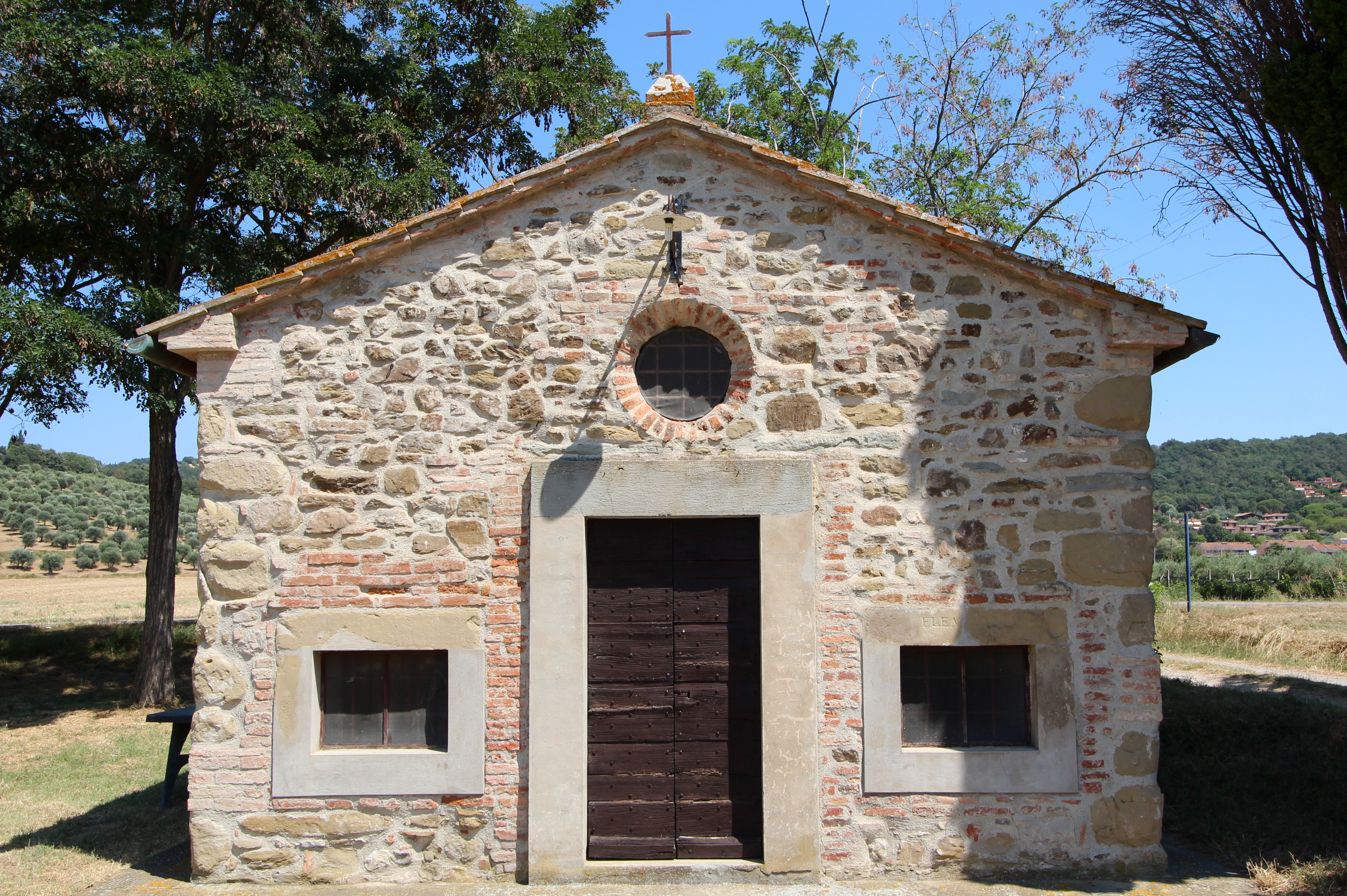 Church Madonna della Neve, outside and north of San Feliciano, hamlet of Magione, Umbria, Italy